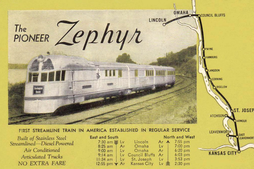 Postcard photo of the Burlington Pioneer Zephyr, schedule and map of the train's permanent route. The back of the card has information that this train served as one of the "Advance Zephyrs" File:Denver Zephyr postcard promotion 1936.JPG for some months in 1936 until the larger trainsets for the route were delivered. Since the regular service for the Denver-Chicago route began in 31 May 1936, the Pioneer Zephyr was the first train to serve on it and was the train shown here File:Pioneer Zephyr Dawn to Dusk Club 1936.JPG at Chicago's Union Station on 31 May 1936. Those gathered on the platform rode this train from Denver to Chicago two years prior when the train made a historic record-breaking run in 1934.